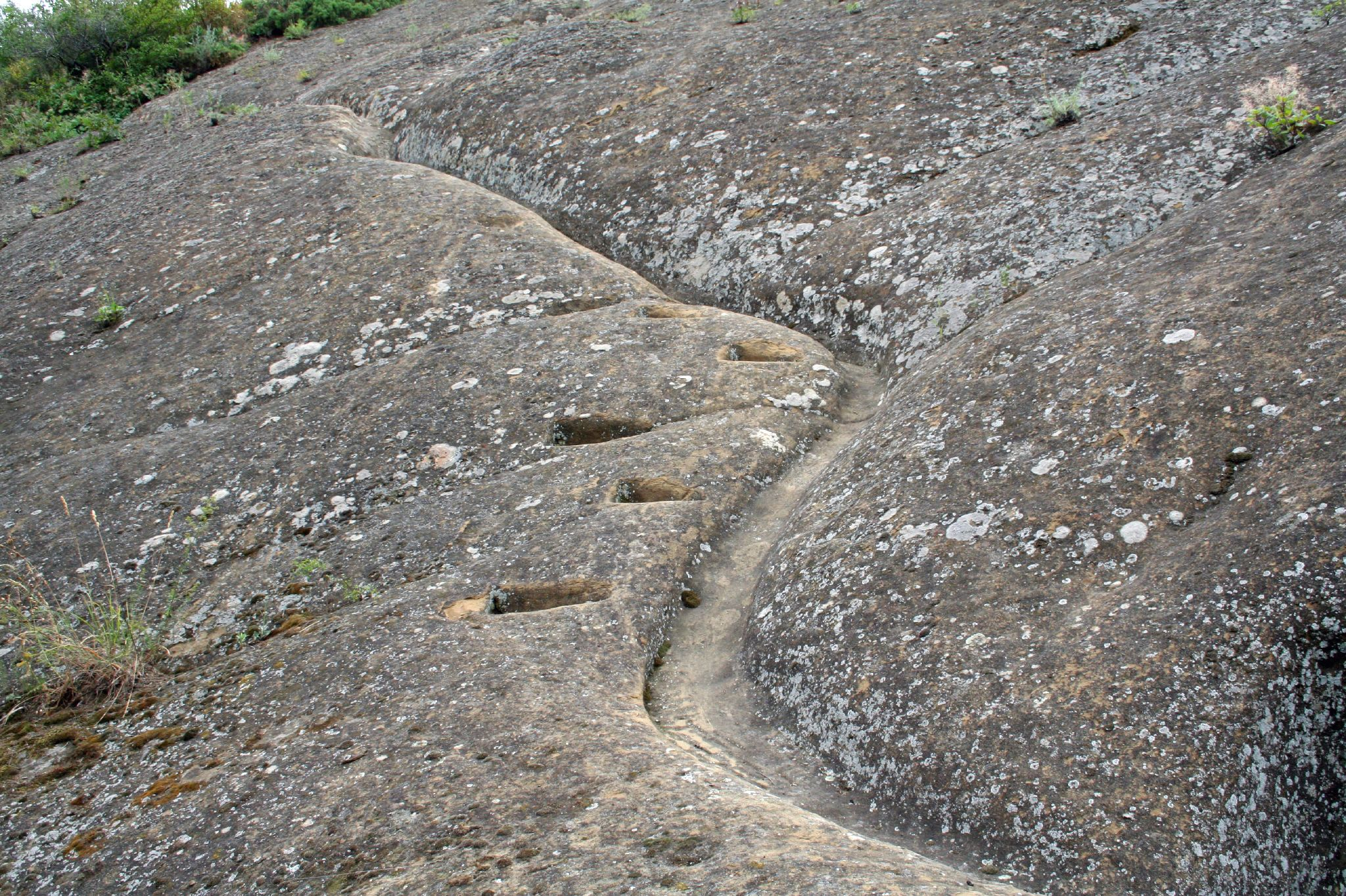 Water collecting system in David Garedzha